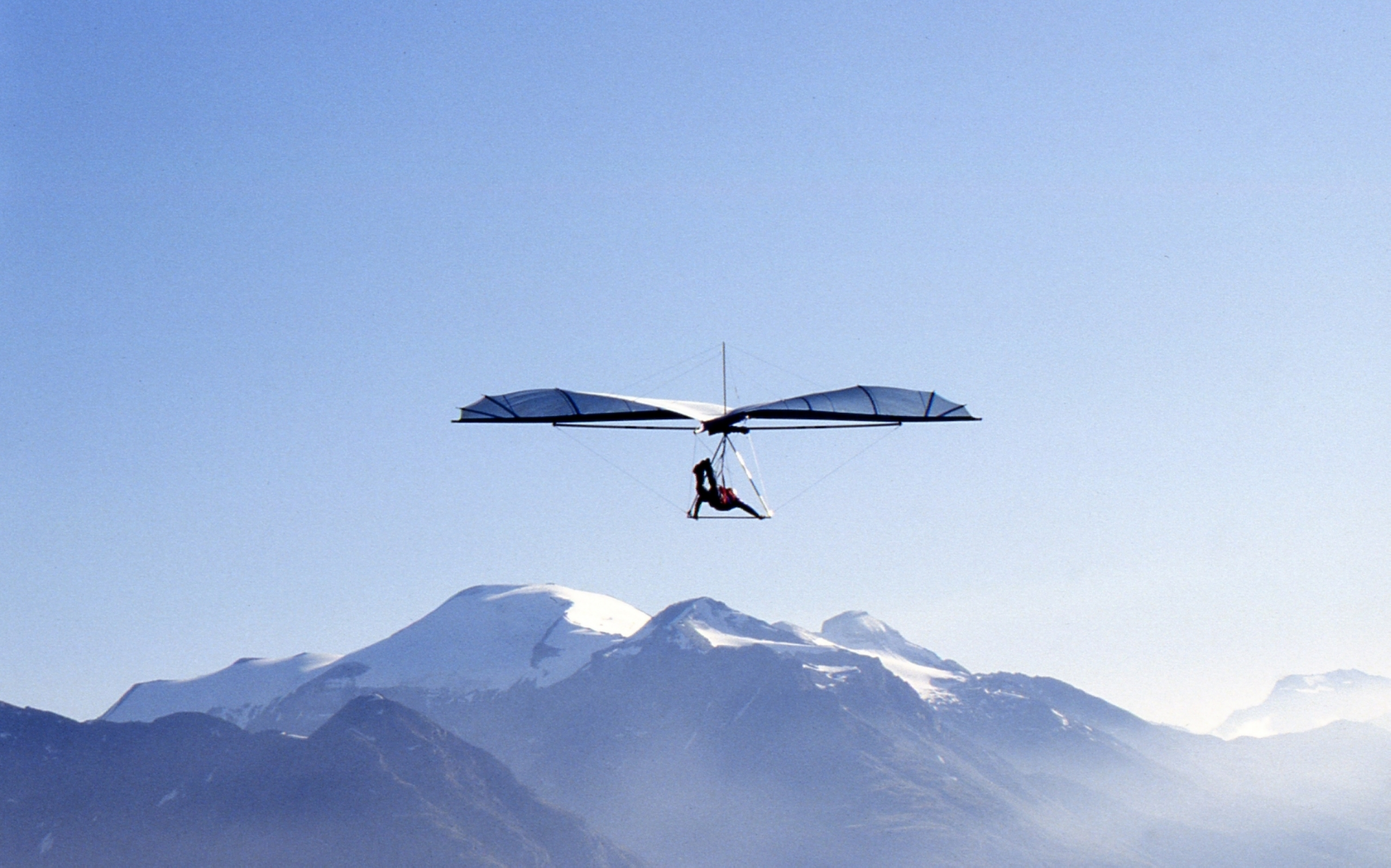 The massif around Albaron Peak (3637 m above sea level; below the right wing). French part of the Graian Alps between Turin (I) and Aosta (F). View from NW.